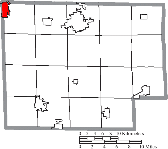 Map of the municipal and township boundaries of Huron County, Ohio, United States, as of the 2000 census, with the location of the city of Bellevue highlighted. Township borders are shown only in unincorporated areas in order to differentiate incorporated and unincorporated areas more clearly.